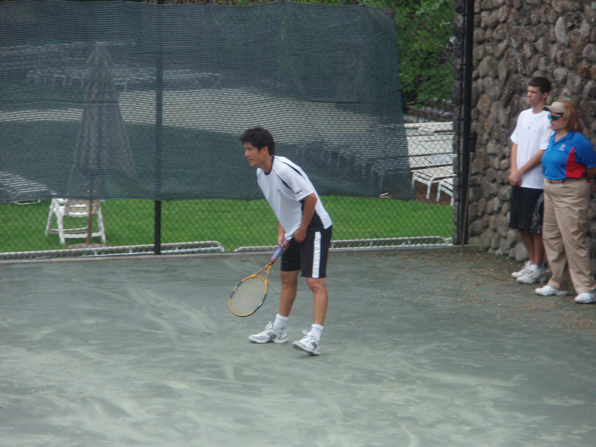 Kevin Kim Playing In New City, New York In The Kennedy Funding Invitational.